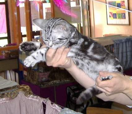 Beautiful young British Shorthair female cat Olivia, at the Cat Show, 2006.